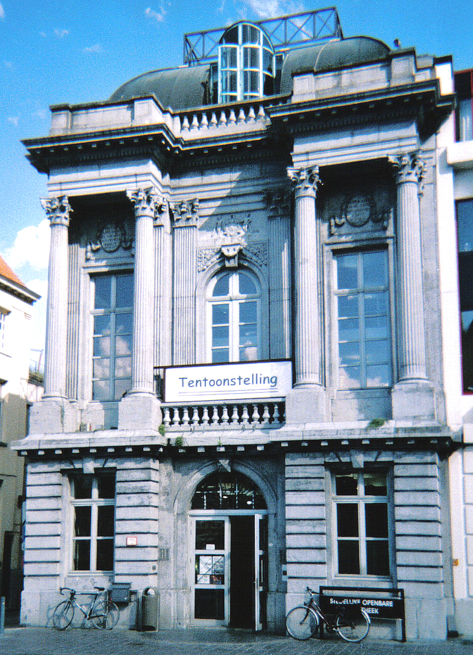 The public library of Oudenaarde, Belgium. The building dates from the 18th century.